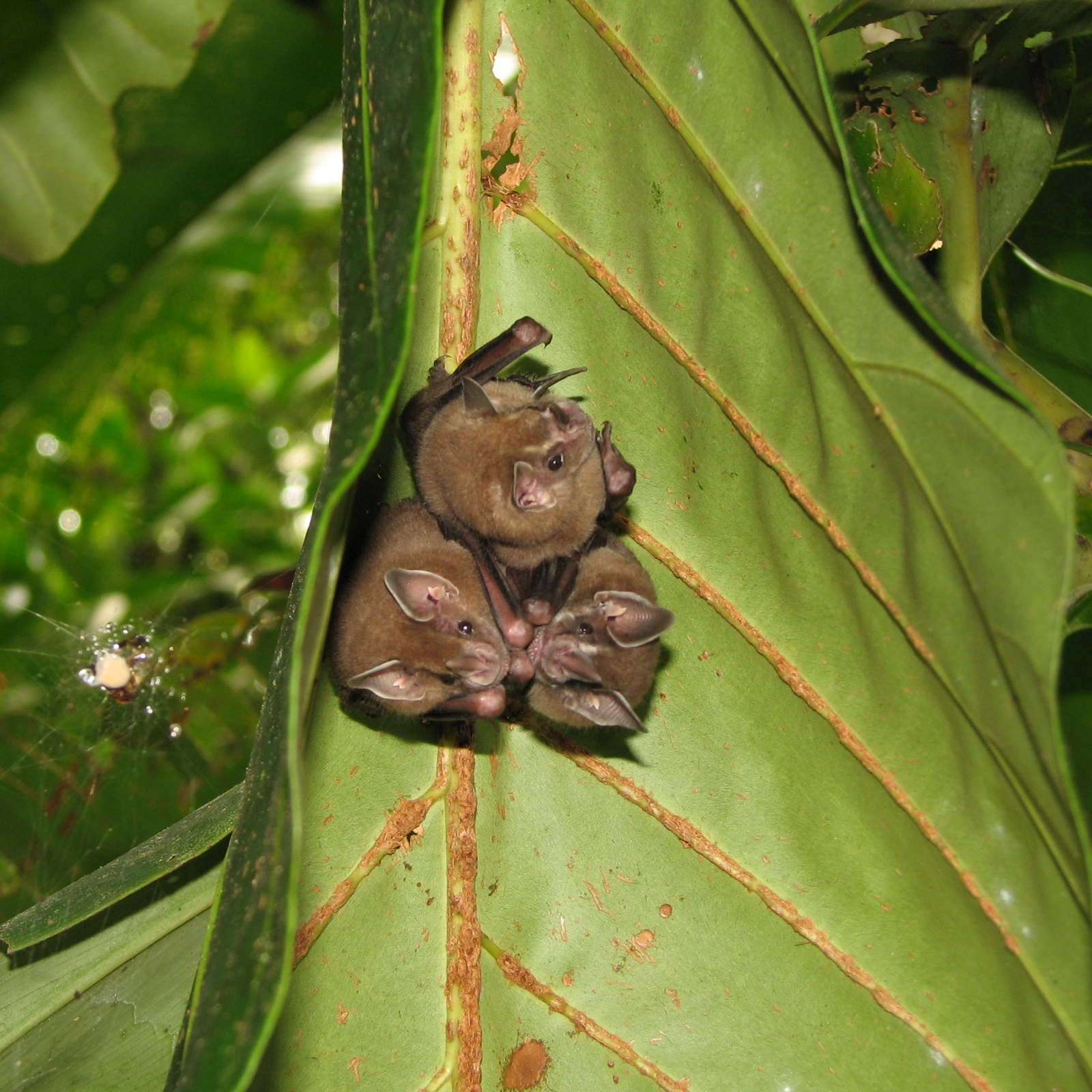 Artibeus sp. in Tortuguero Nationalpark, Costa Rica Family: Phyllostomidae; Subfamily: Stenodermatinae